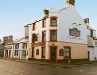 Picture taken by Jeff Palmer